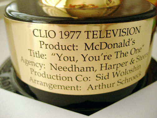 Closeup of the plaque on the 1977 Clio Award given to Artie Schroeck for his arrangement on the McDonald's "You, You're the One" commercial